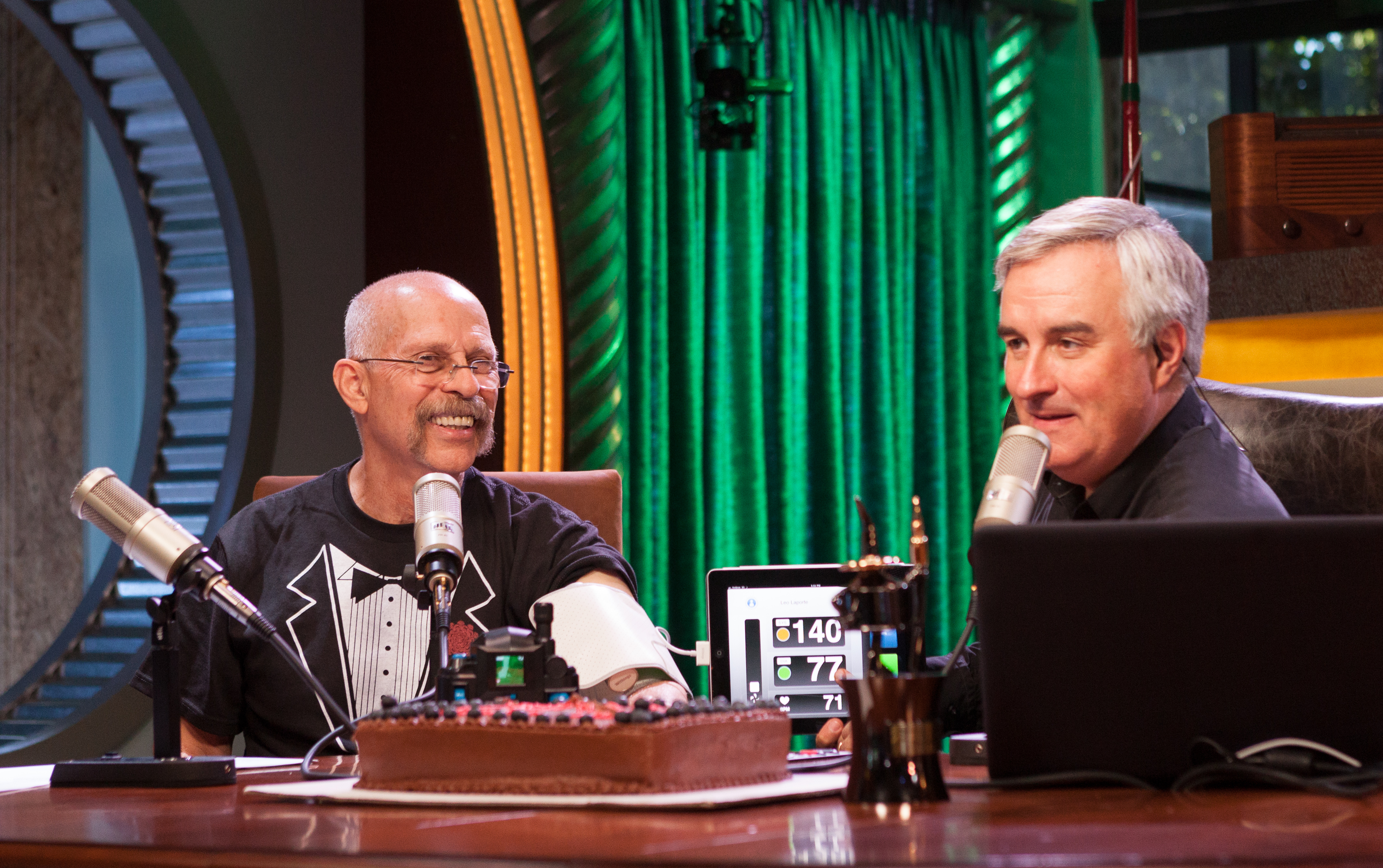 Dick DeBartolo and Leo Laporte record The Daily Giz Wiz podcast at the grand opening of the TWiT Brickhouse studio in Petaluma, California, July 24, 2011.